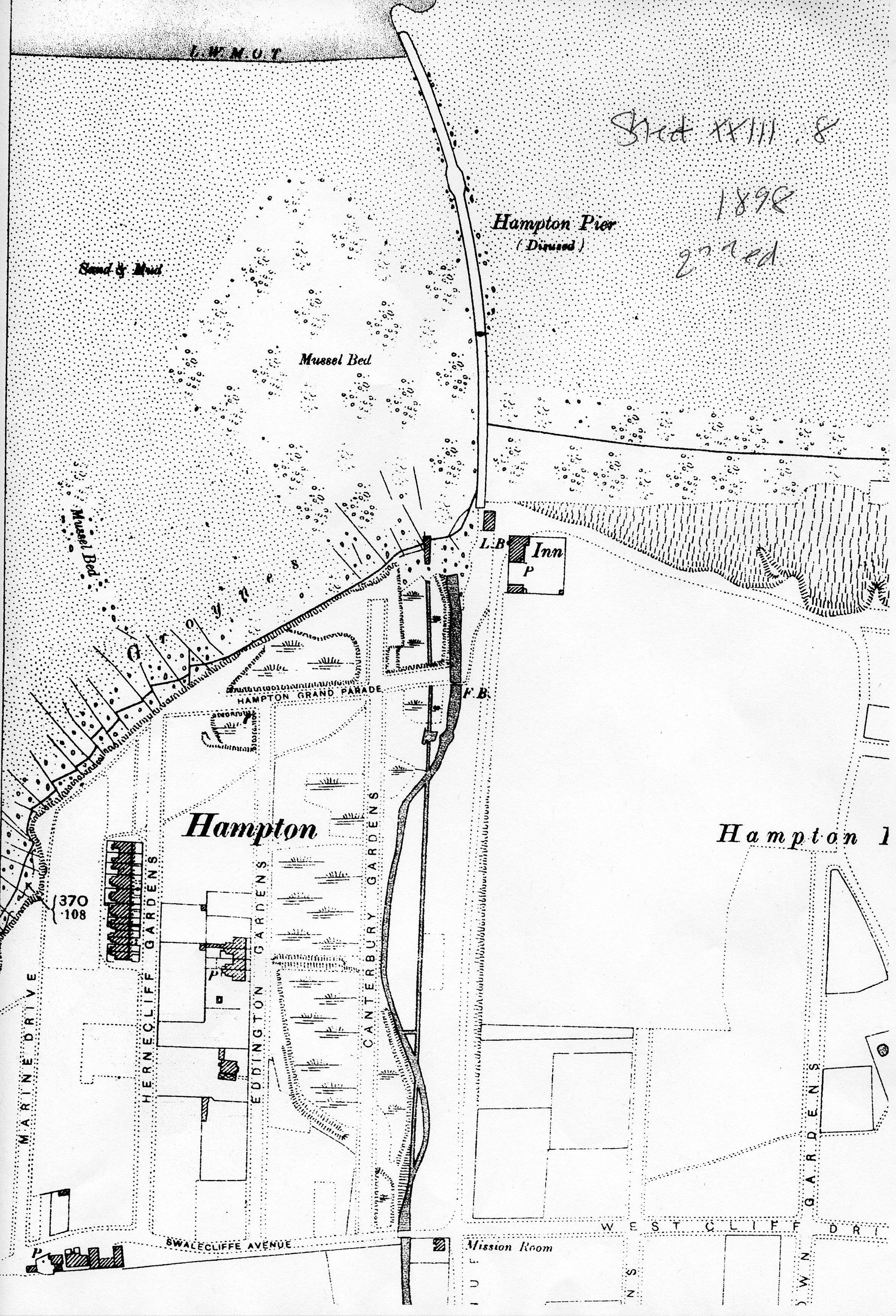 Part of 1898 OS map XXIII.8 (2nd ed) of Hampton-on-Sea in East Kent, England, showing development by the Land Company of seven terraced villas additional to those already built by the oyster fishery plus Pleasant Cottage, in Swalecliffe Avenue. Compared with the above 1872 OS map, this map shows a further stage of coastal erosion initiated by the construction of the pier in 1865. The high water level on the north coast to the east of the pier is moving north as the beach material mounts up; the coastline to the west of the pier is being eroded away and is moving south. For progression of building and erosion, compare this map with: File:OS map Hampton 1872 004.jpg File:OS map Hampton 1878 114.jpg File:Hampton 1978 001b.jpg